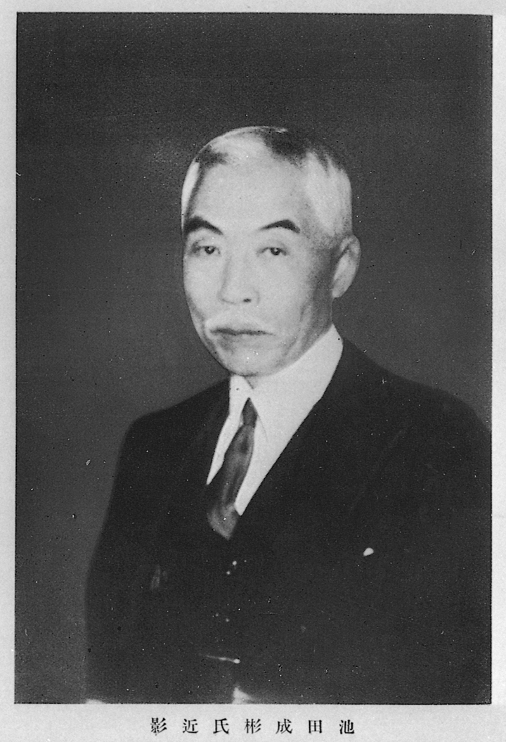 Portrait of Shigeaki Ikeda (池田成彬, 1867 – 1950)